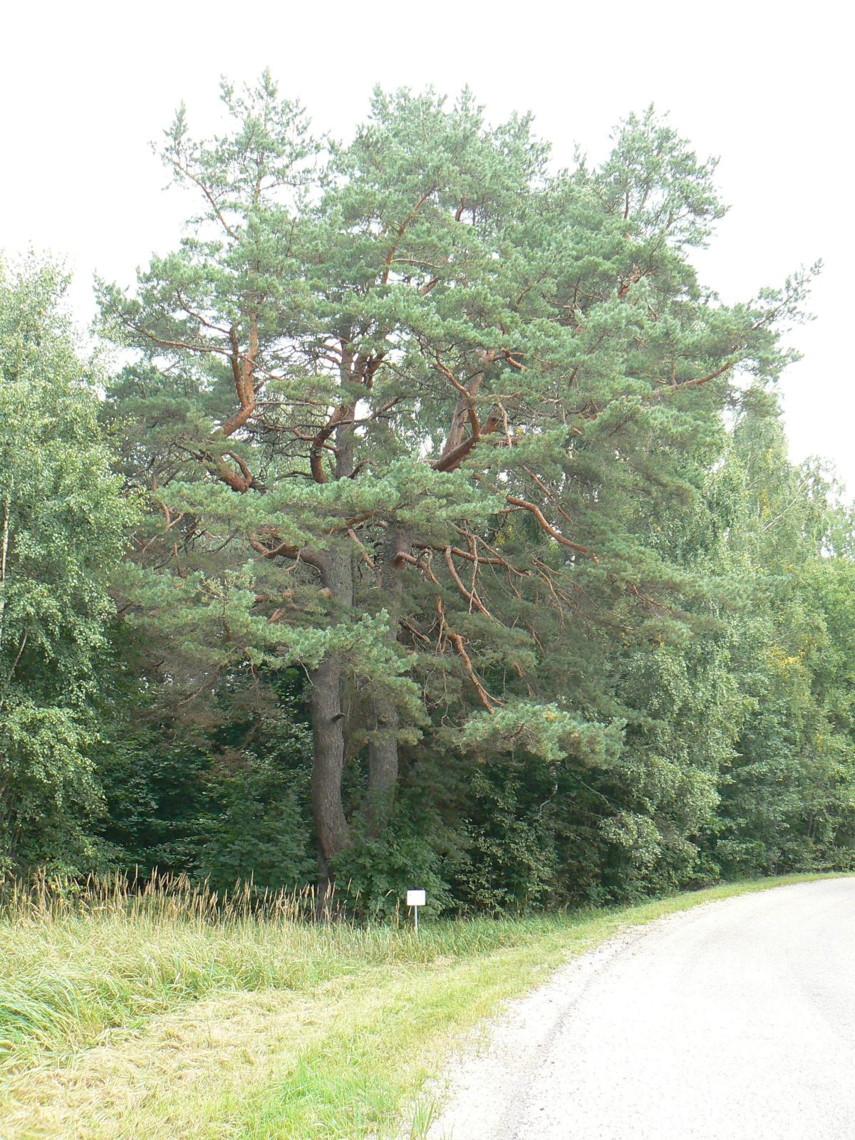 Kapera pine in Estonia